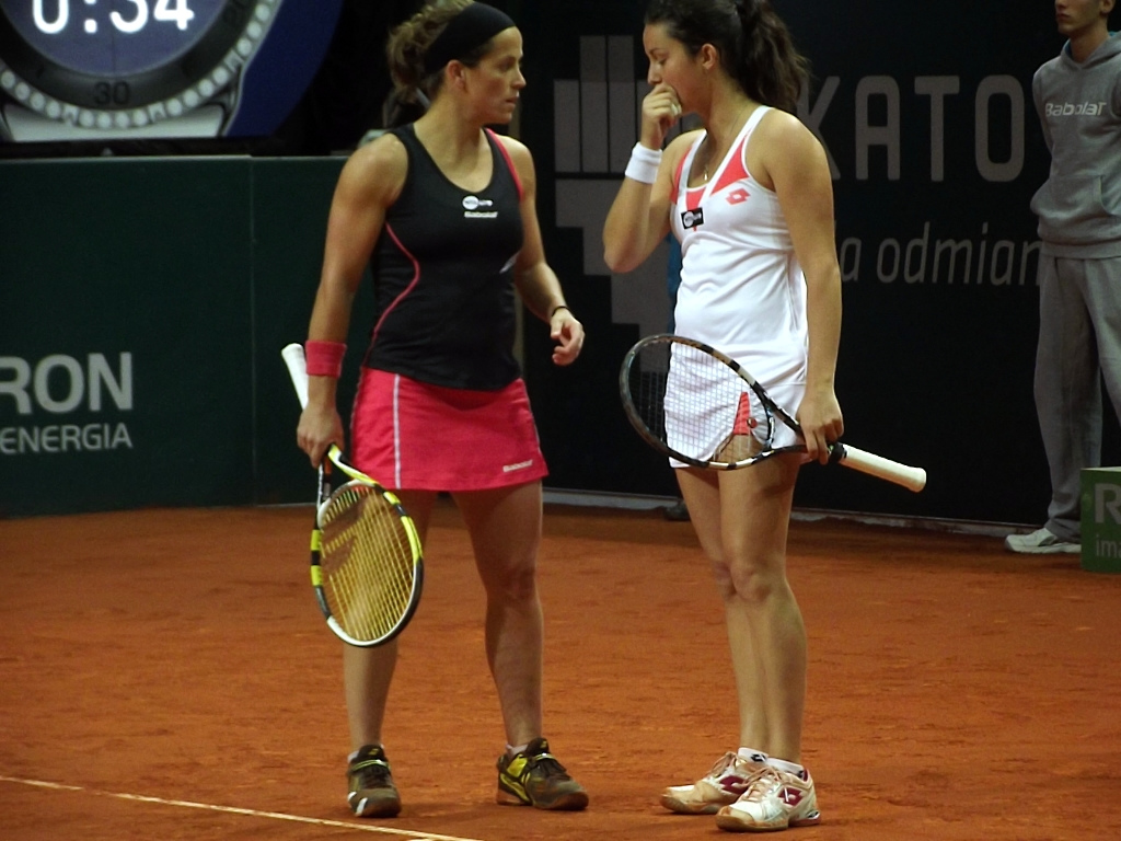 Picture taken during the women's tennis tournament BNP Paribas Open Katowice, Spodek in Katowice.